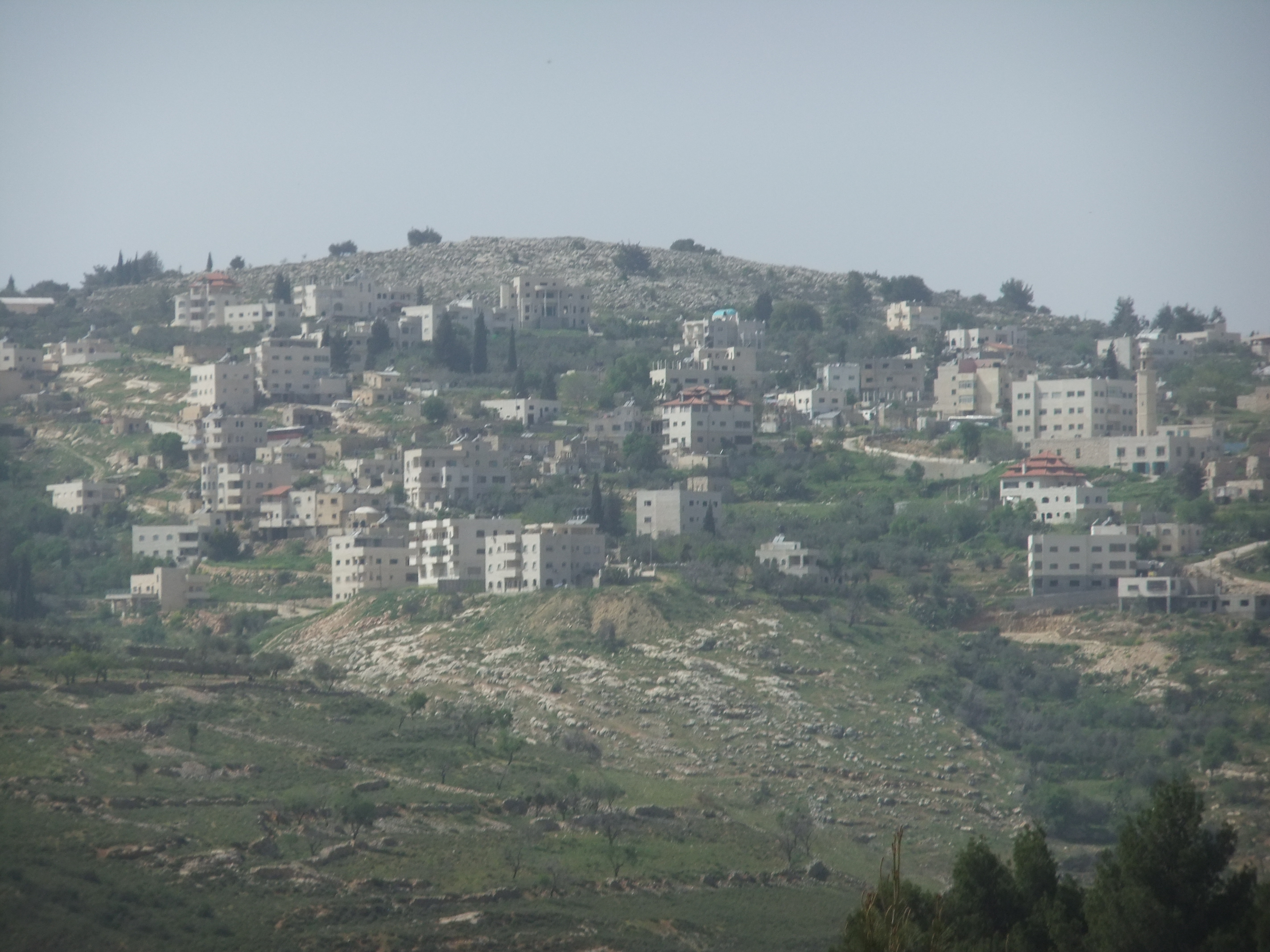 Beit Iksa from Ramot forest